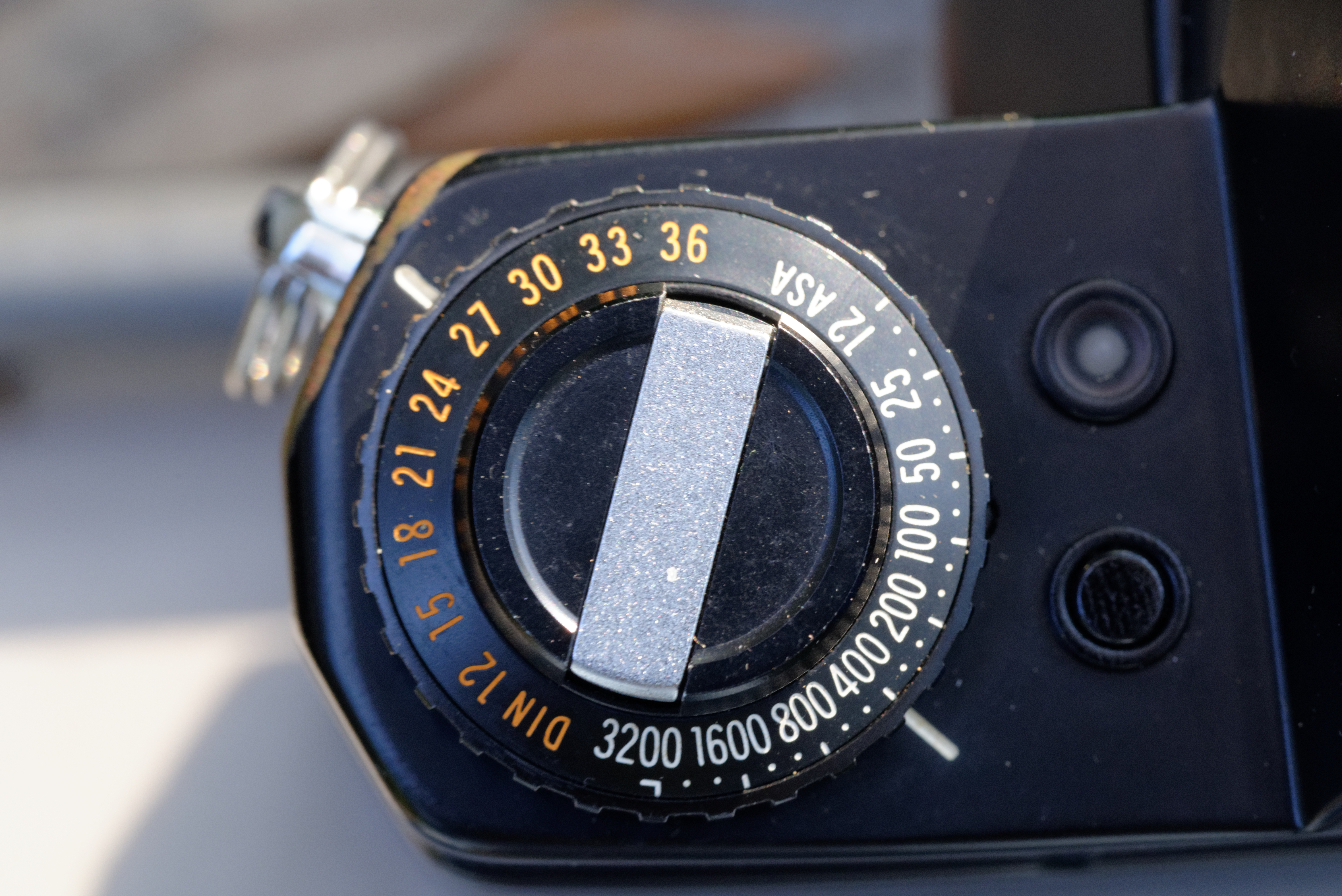 A Yashica FR SRL (circa 1977) with both ASA and DIN film speed markings